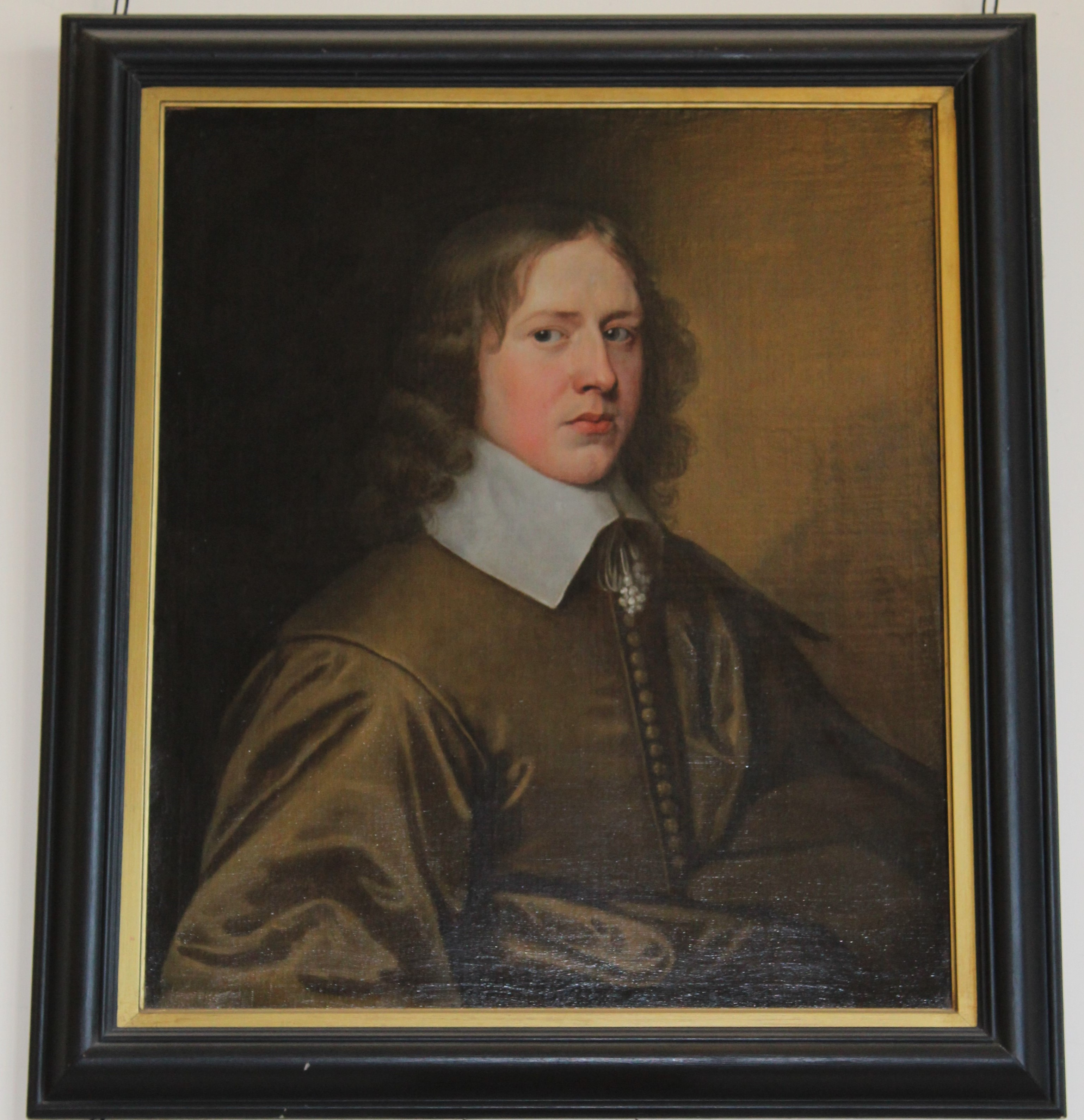 Brian Fairfax, the elder (1633-1711). with thanks to Leeds castle for allowing photography. Artist believed to be in the circle of Robert Walker.